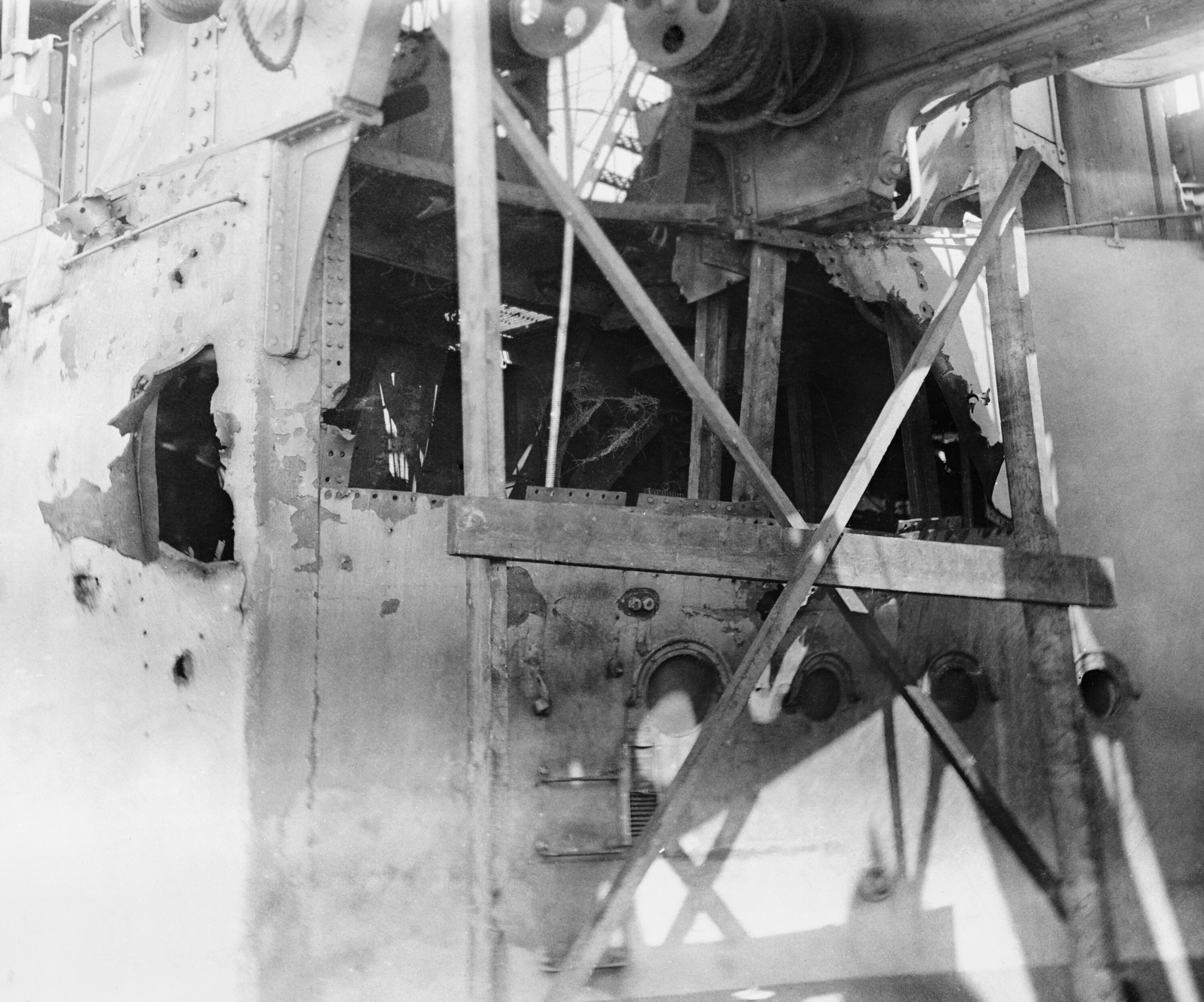 IWM caption : The superstructure of HMS COLOSSUS, showing damage done at the Battle of Jutland. COLOSSUS was the flagship of the 1st Battle Squadron (MARLBOROUGH, REVENGE, HERCULES, AGINCOURT, COLLINGWOOD, NEPTUNE, ST VINCENT, BELLONA). She was hit twice and suffered five casualties. Note the wooden beams being used to brace the metalwork.